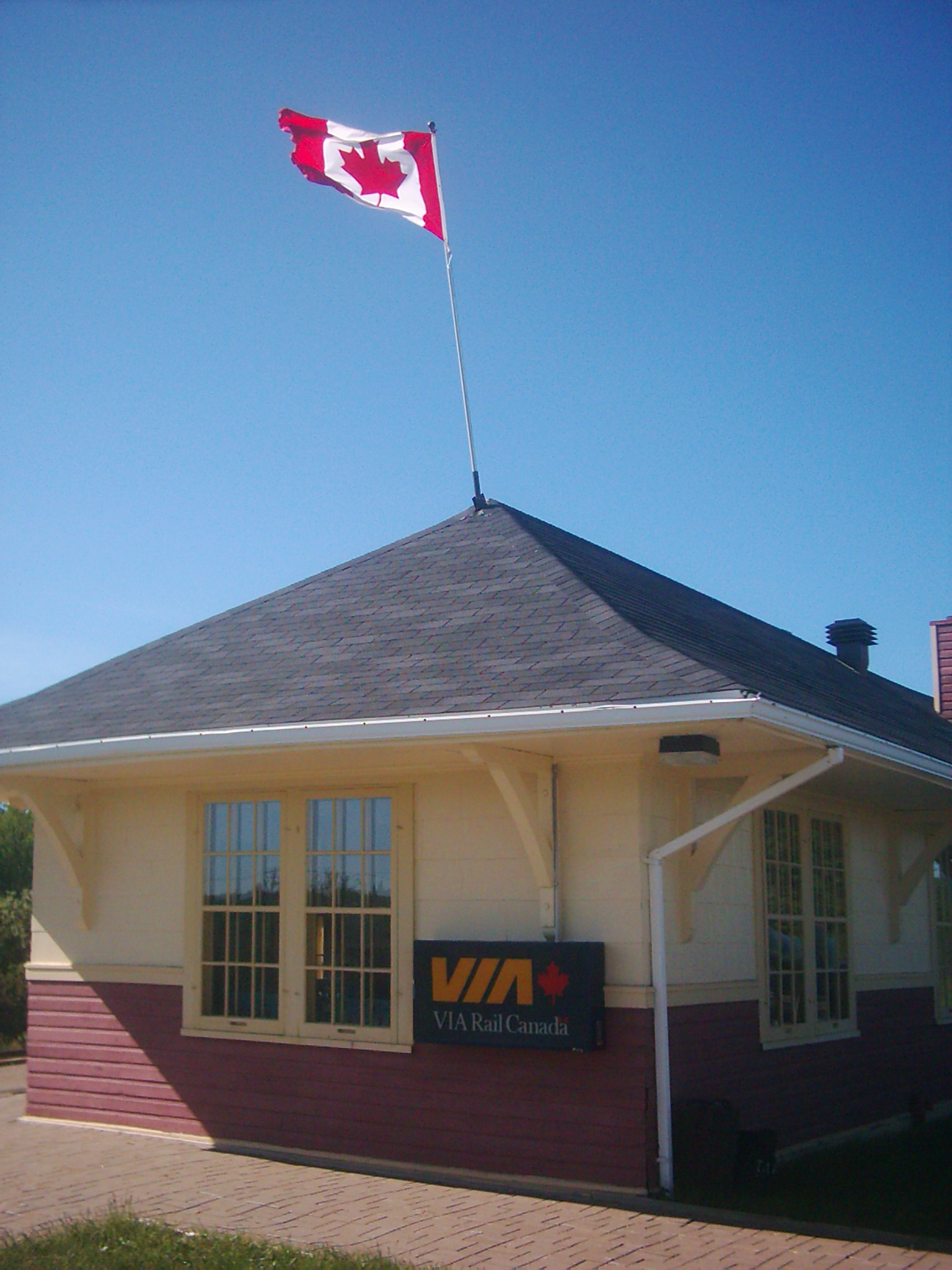 VIA train station in Percé